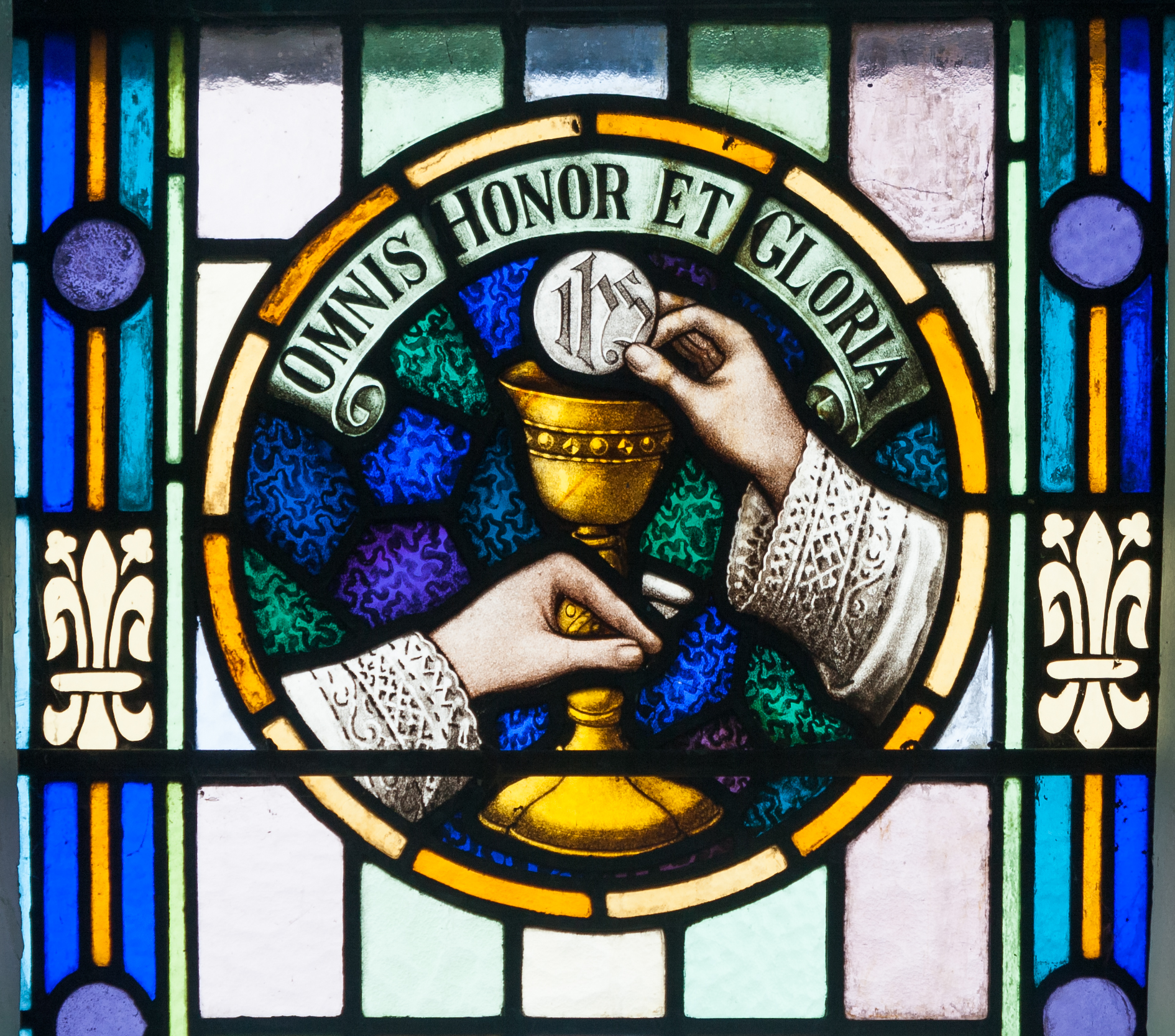 Left light of the triple window in the north-west gable, depicting the eucharistic prayer concluding with the words omnis honor et gloria.